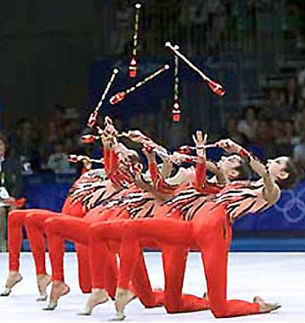 Greece's Rhythmic Gymnastics Group perform with Clubs at the 2000 Sydney Olympics